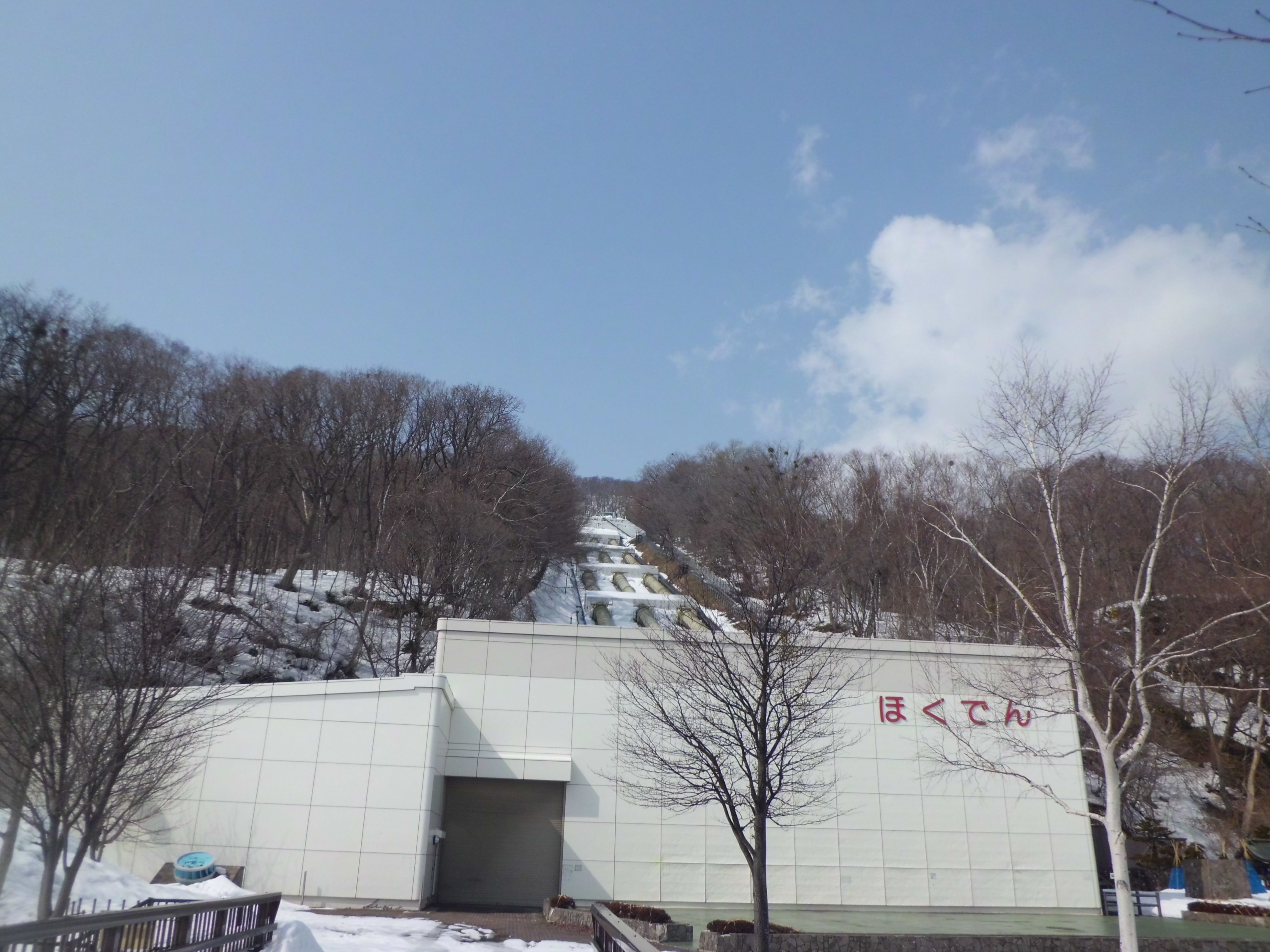 Moiwa Power Station